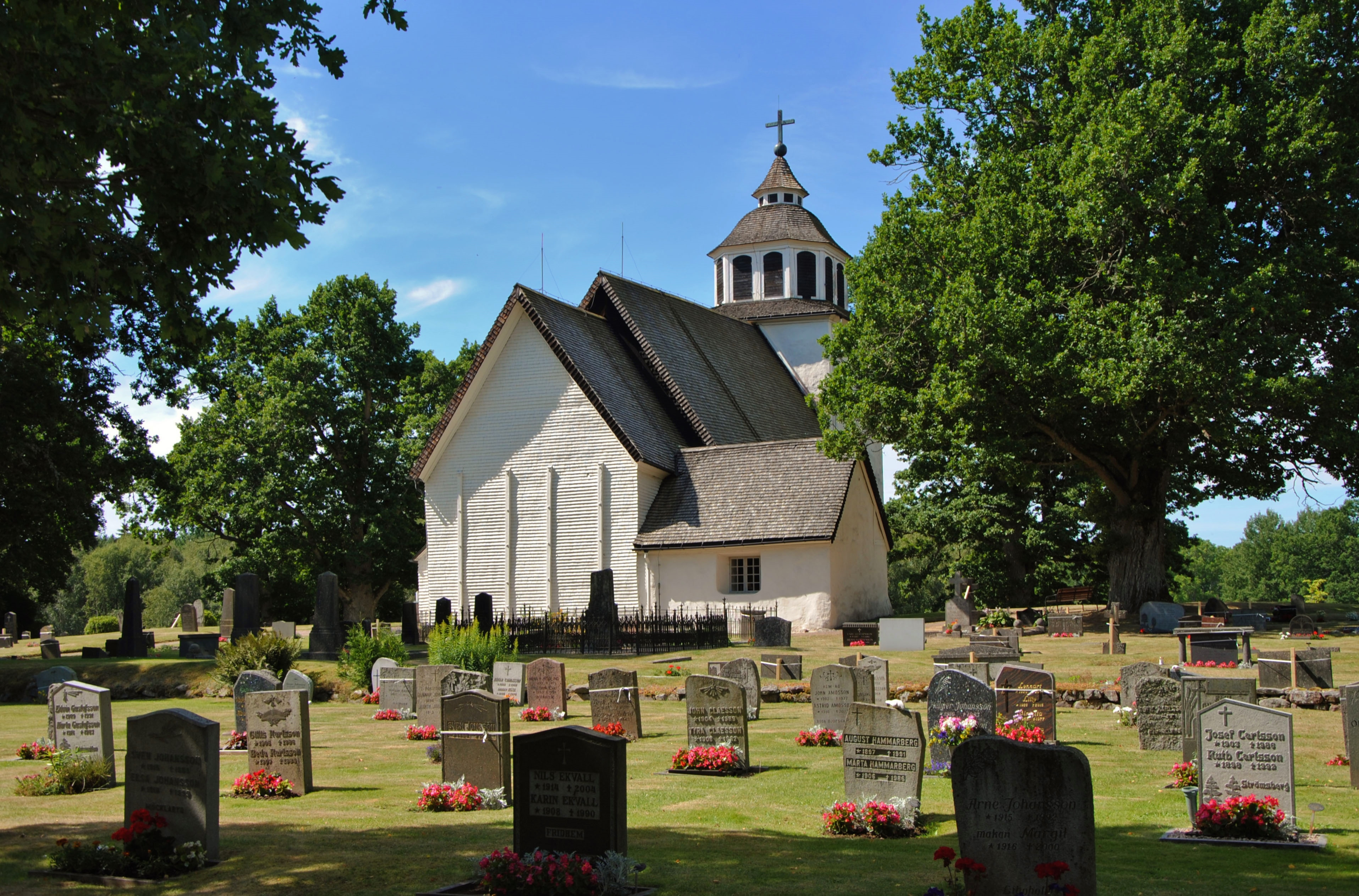 Stenberga Church.Exterior.The church is built of wood has medieval origins. The wood in the roof truss is the dro chronologically dated to 1332. The tower was added in stone 1762nd.